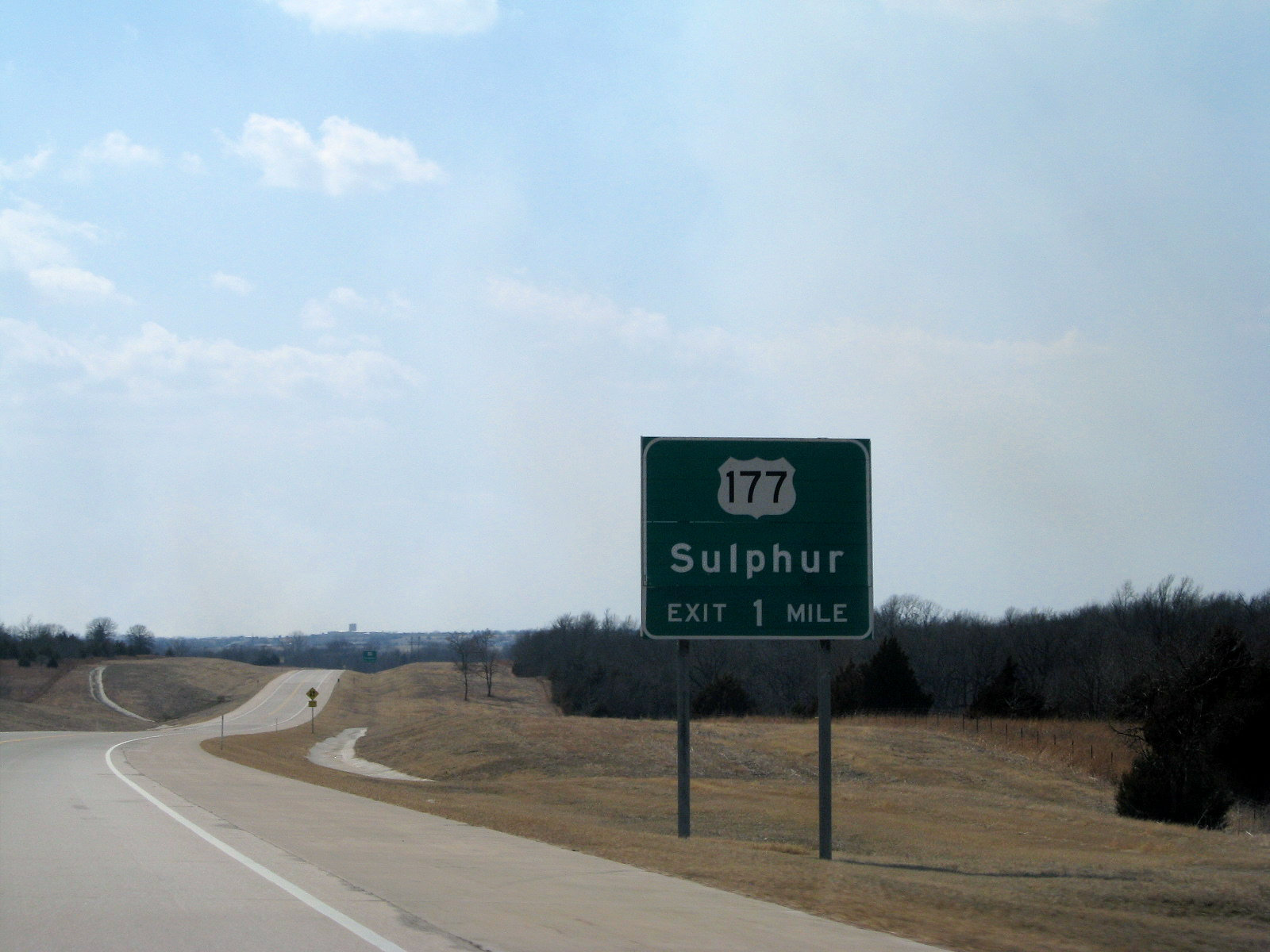 Signage on the eastbound Chickasaw Turnpike around Mile 5 for the Sulphur (U.S. 177) exit.